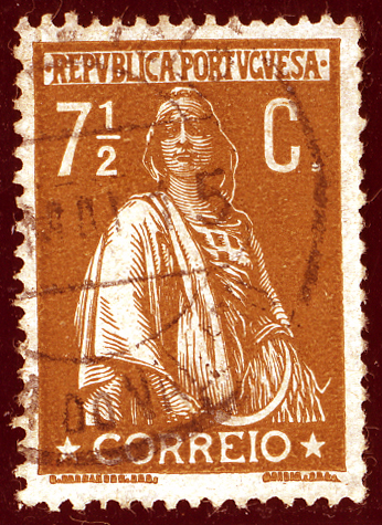 Stamp of Portugal, 7,5 C, yellow-brown, issue 1912, Michel N°211.